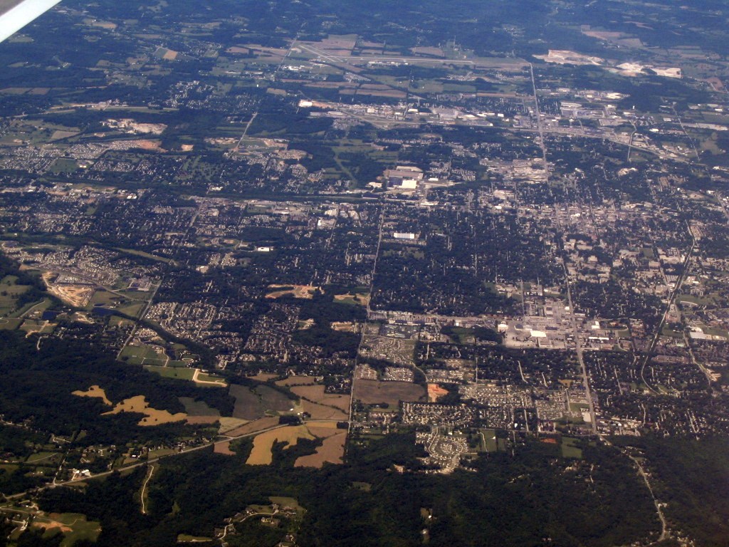 Looking west over Bloomington, Indiana.